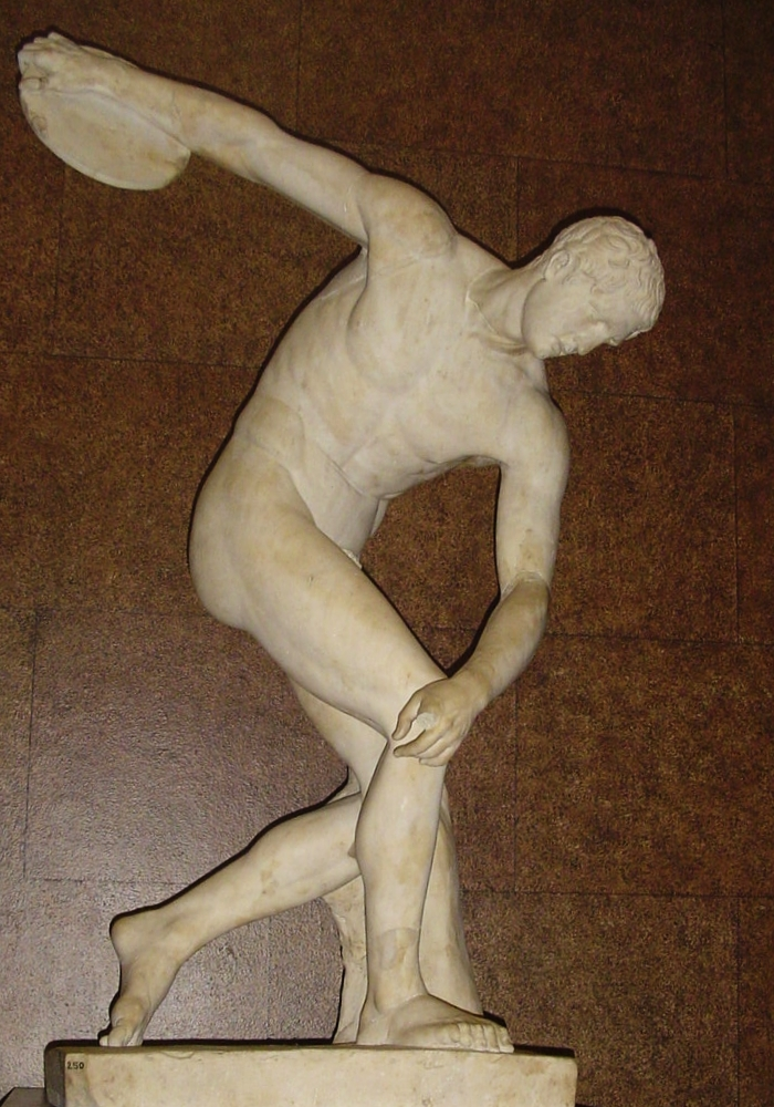 Discobolus. Marble, Roman copy after a bronze original of the 5th century BC. From the Villa Adriana near Tivoli, Italy.